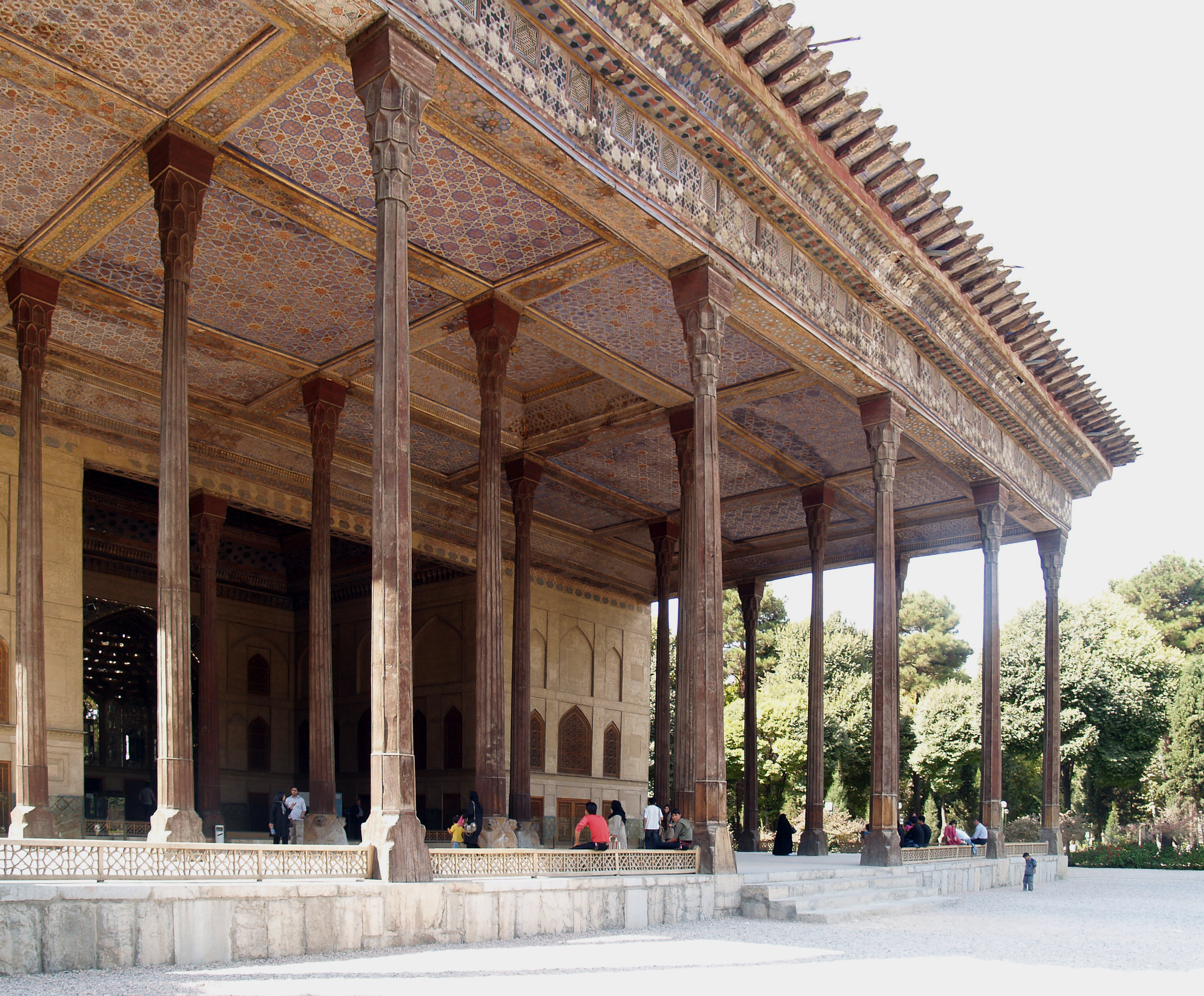 Chehel Sotoun